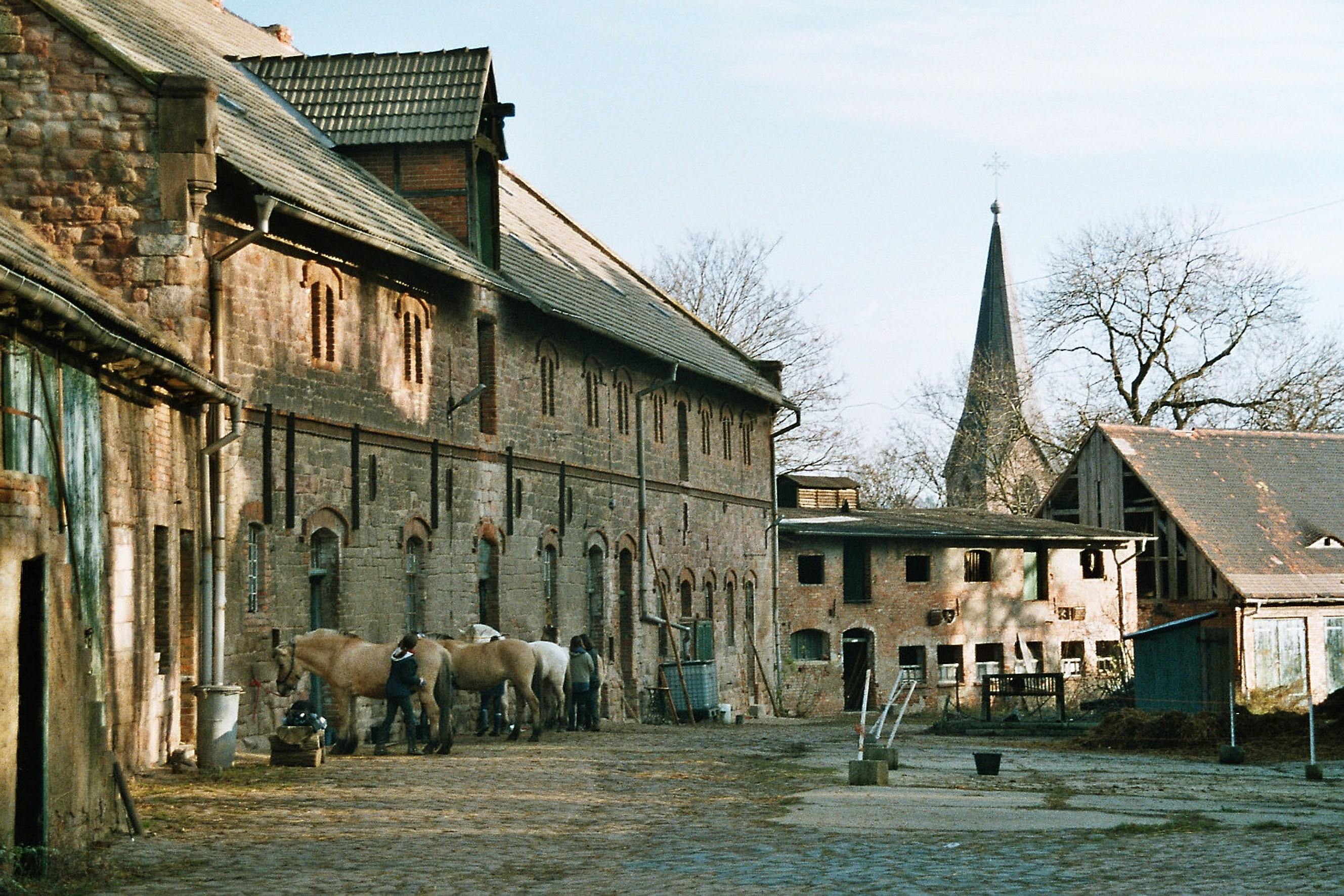 Friedeburg (Saale), the castle courtyard